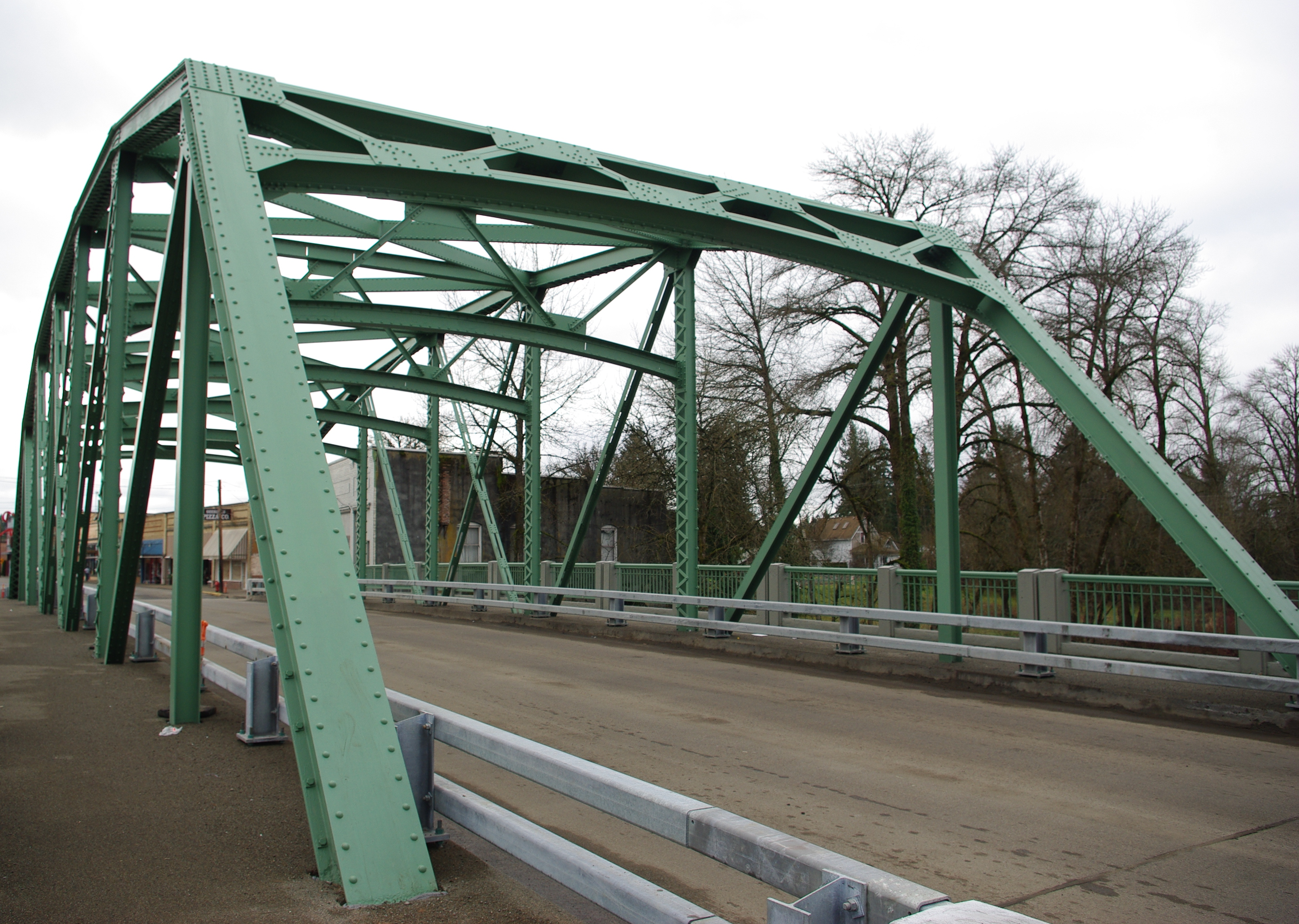 Sheridan Bridge in Sheridan, Oregon, after refurbishment in 2013.